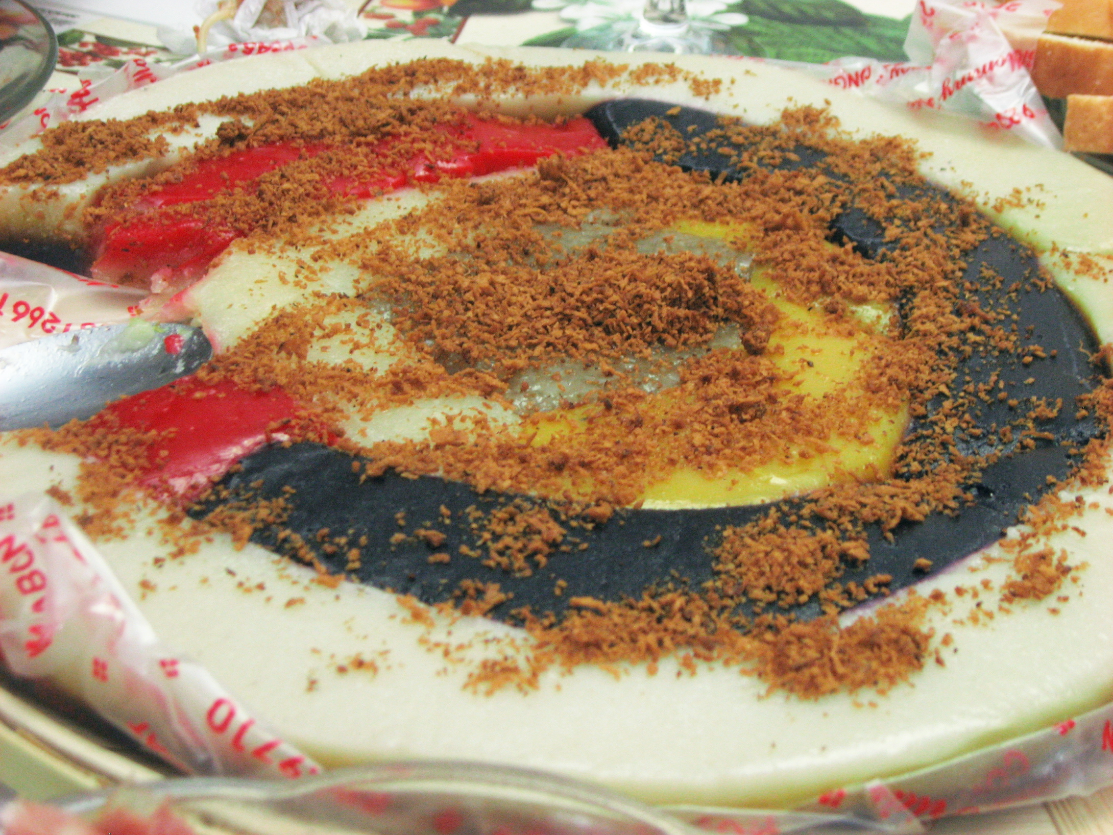 Sapin-sapin, a Filipino delicacy, sprinkled with crumbs.